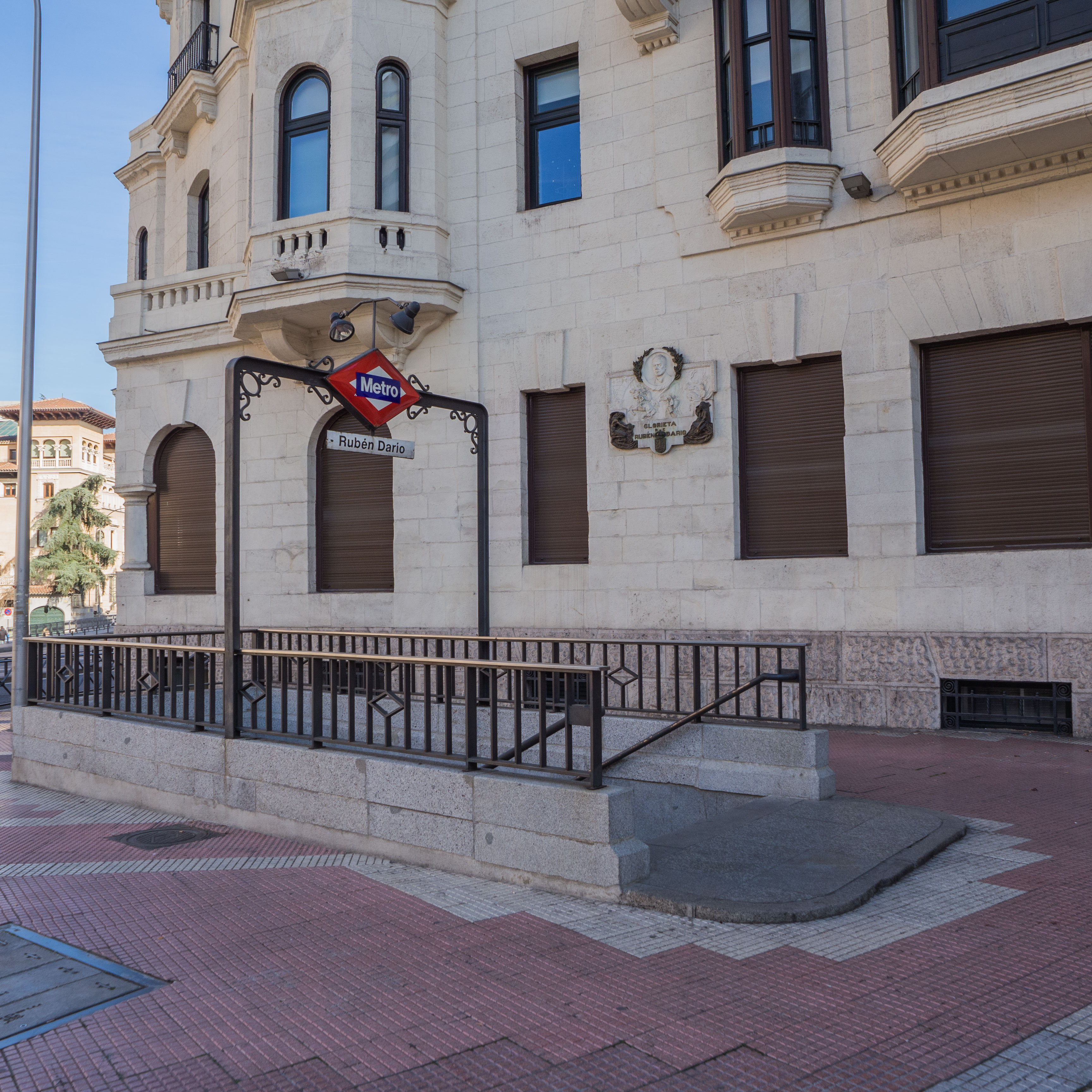 Rubén Darío Metro station in Madrid. Rubén Darío Square access.